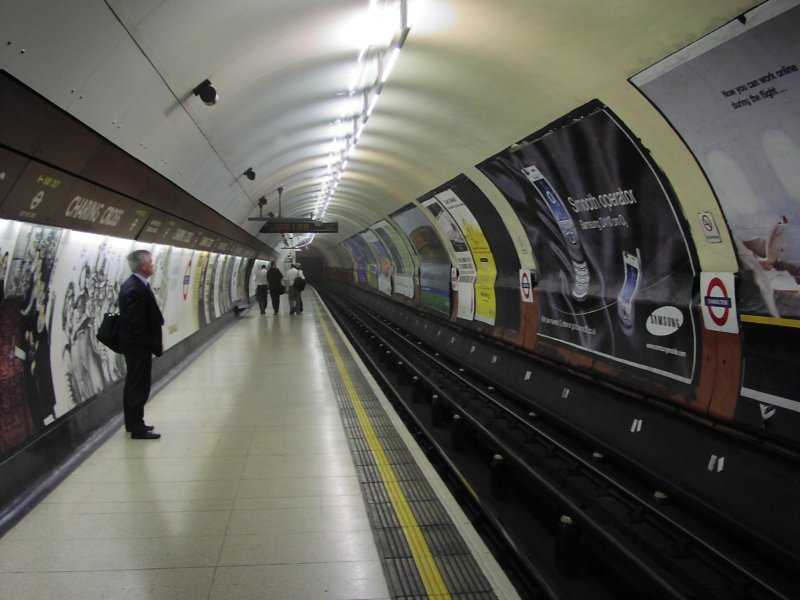 London Underground, station Charing Cross (Northern Line)